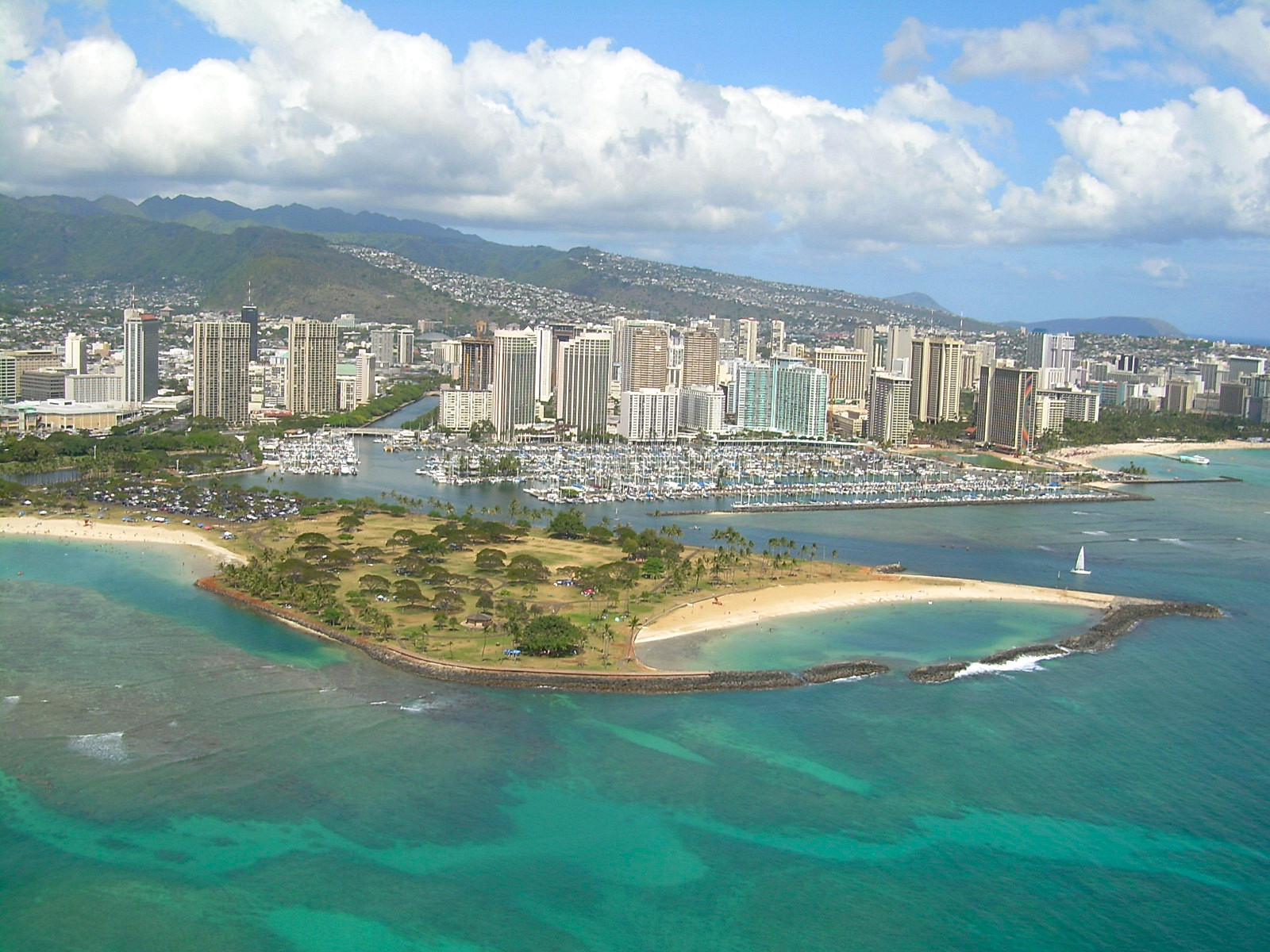 View of Honolulu, Magic Island (in foreground) is next to Ala Moana Beach Park (to the left), and Ala Wai Yacht Harbor.